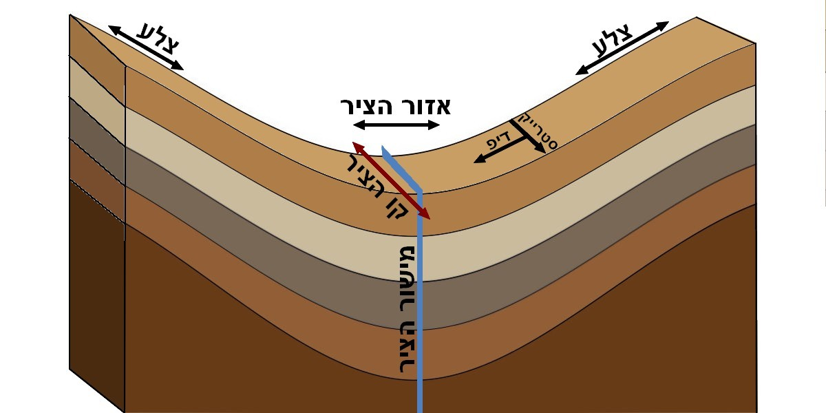 Syncline cross-cut